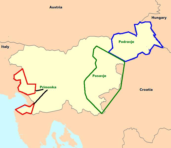 Modified versions of Commons image Image:Slovenia map blank.png to show the main wine regions of Slovenia.